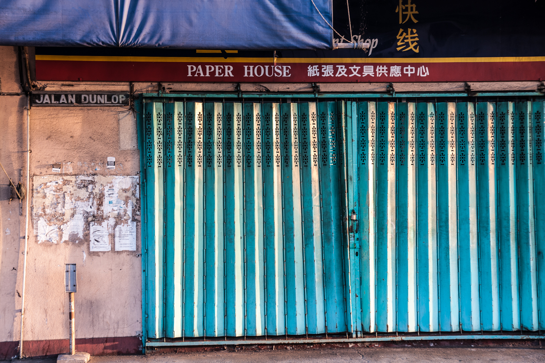 Tawau, Sabah: Paper Shop in Jalan Dunlop